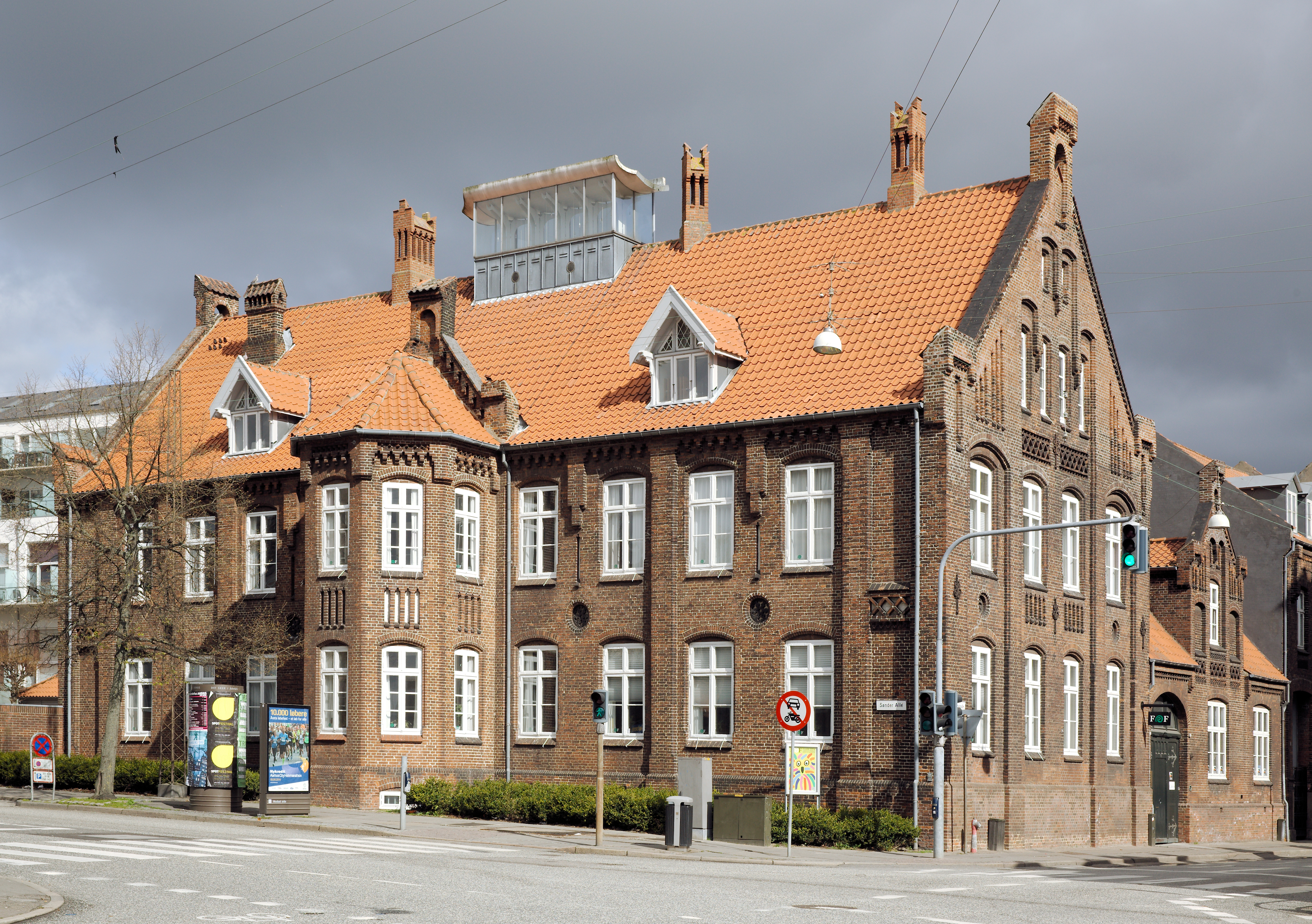 Fredensgade 36, facade facing Sønder Alle, Designed by architect G. L. Martens in 1858.